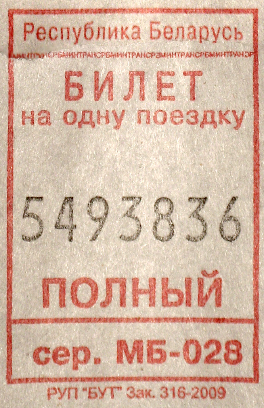 One-trip bus ticket in Slutsk. Беларуская (тарашкевіца): Білет на адну паездку ў слуцкім аўтобусе.